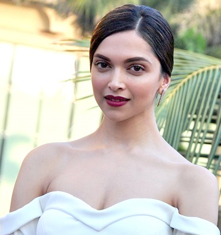 Deepika Padukone promoting ‘Bajirao Mastani’